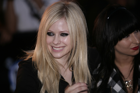 Avril Lavigne at the 2007 MuchMusic Video Awards red carpet.